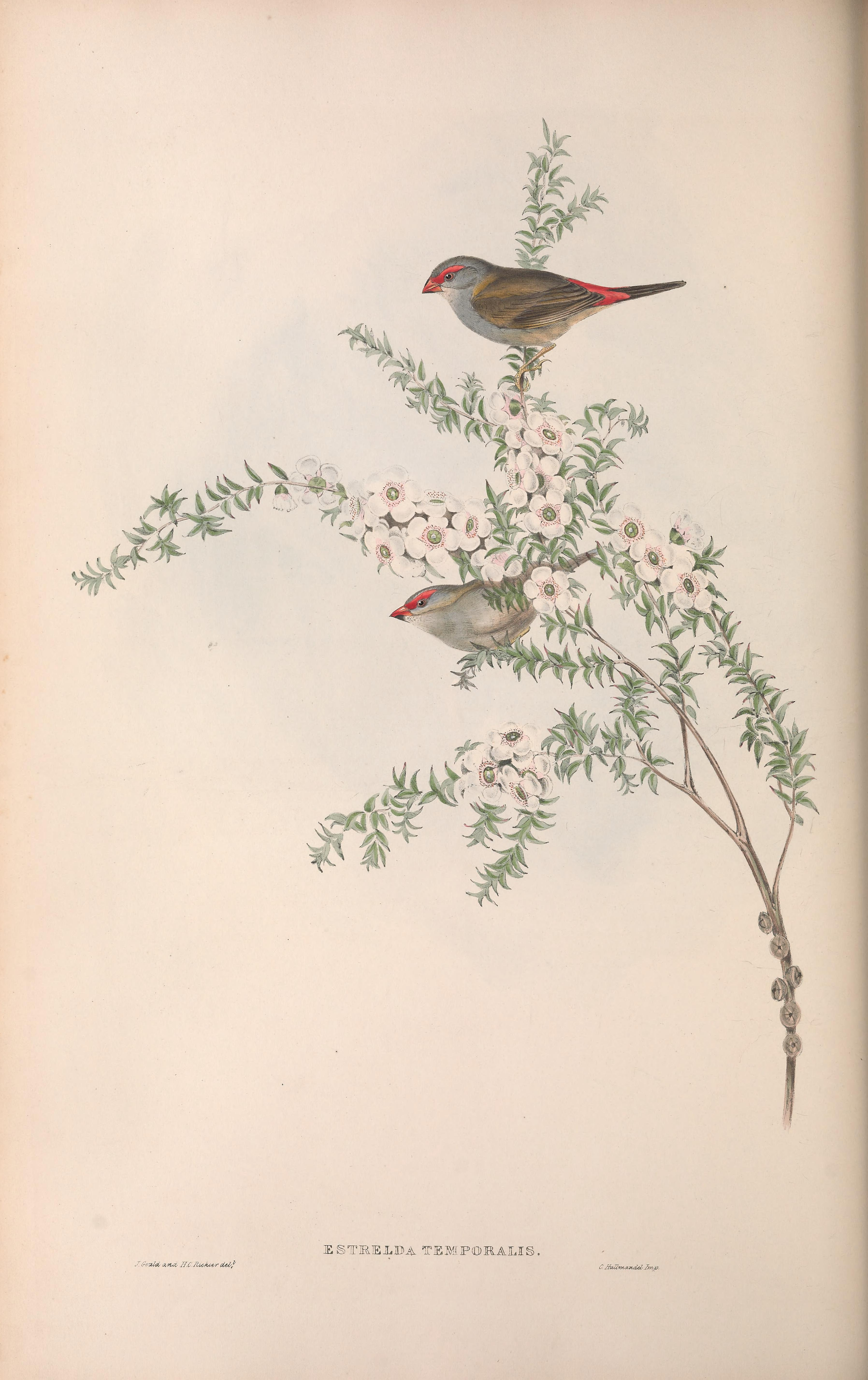 Leptospermum squarrosum Gaertner Neochmia temporalis as Estrelda temporalis J. Gould, The birds of Australia, vol. 3: t. [82] (1848) [Mrs. Gould]